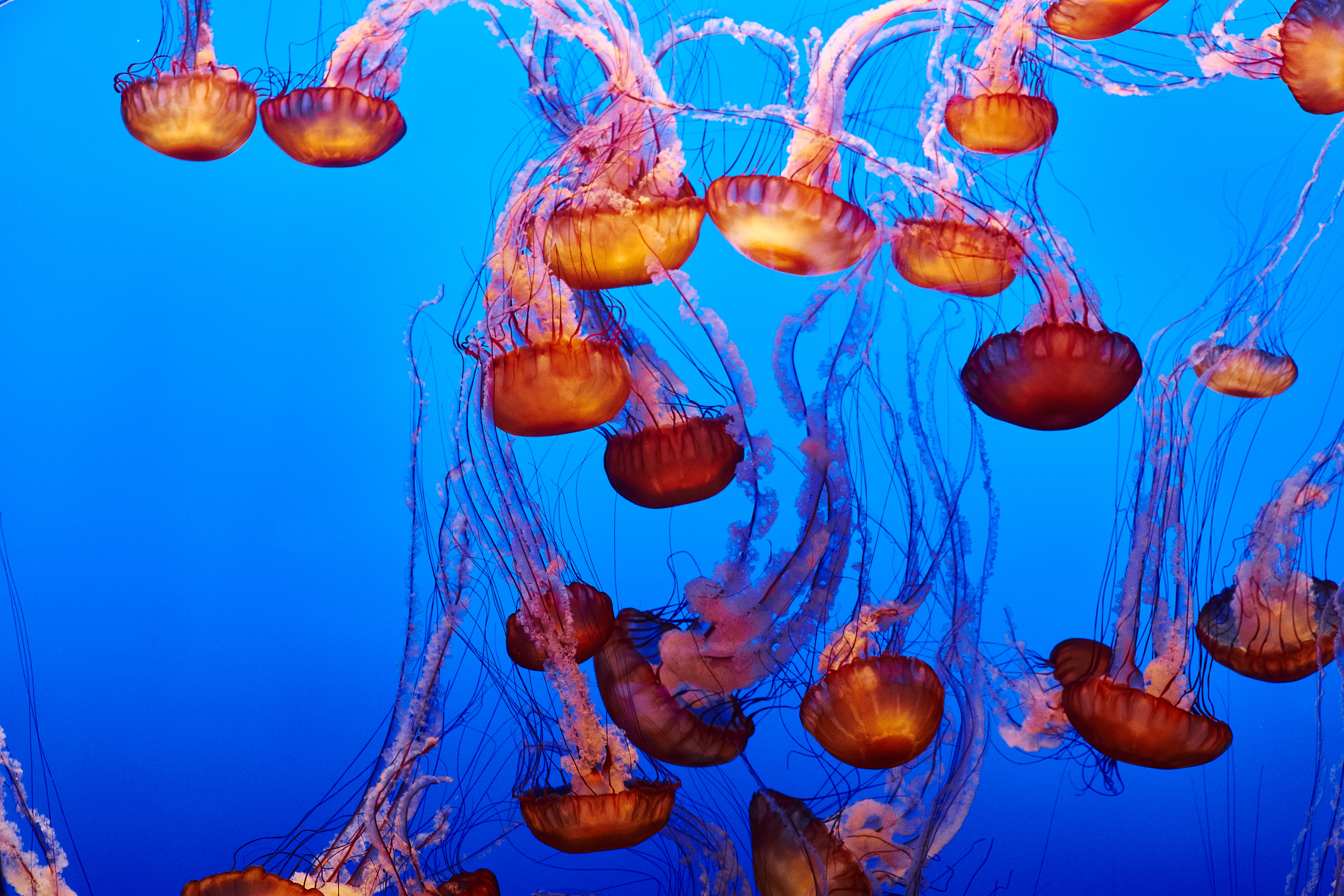 Group of Pacific sea nettles (Chrysaora fuscescens) in an exhibit at Monterey Bay Aquarium